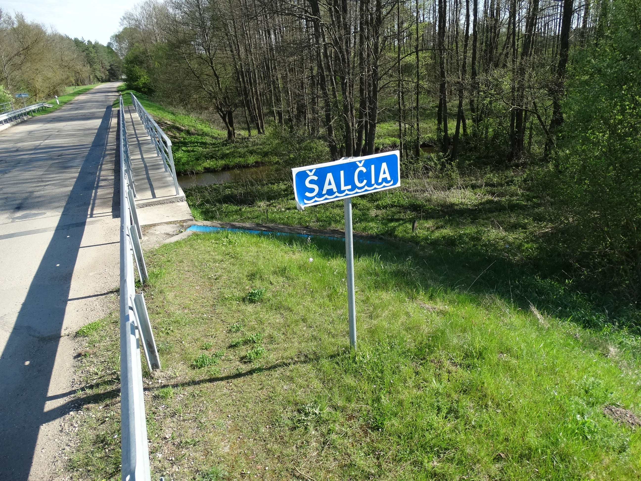 Šalčia River, Gerviškės, Šalčininkai District, Lithuania